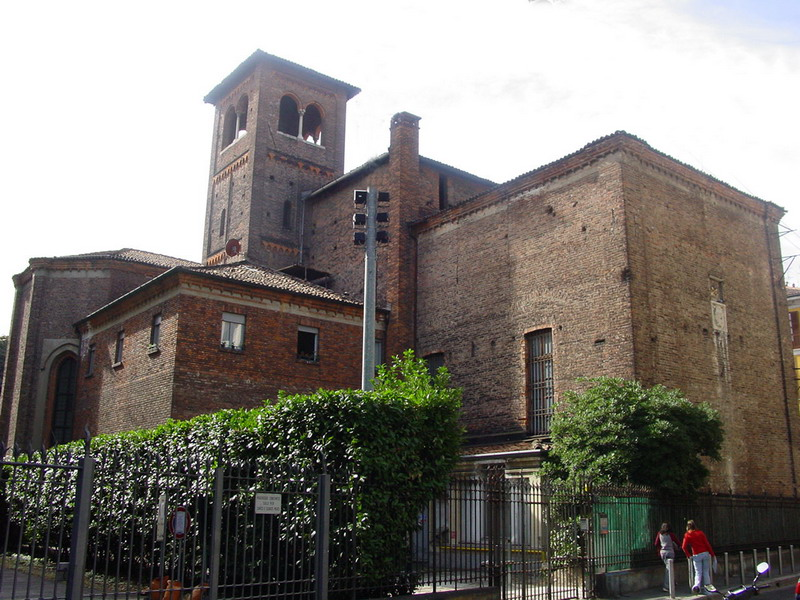 Flank and back of San Pietro in Gessate church in Milan, Italy, with the neo-romanesque church tower (built at the beginning of 20th century).